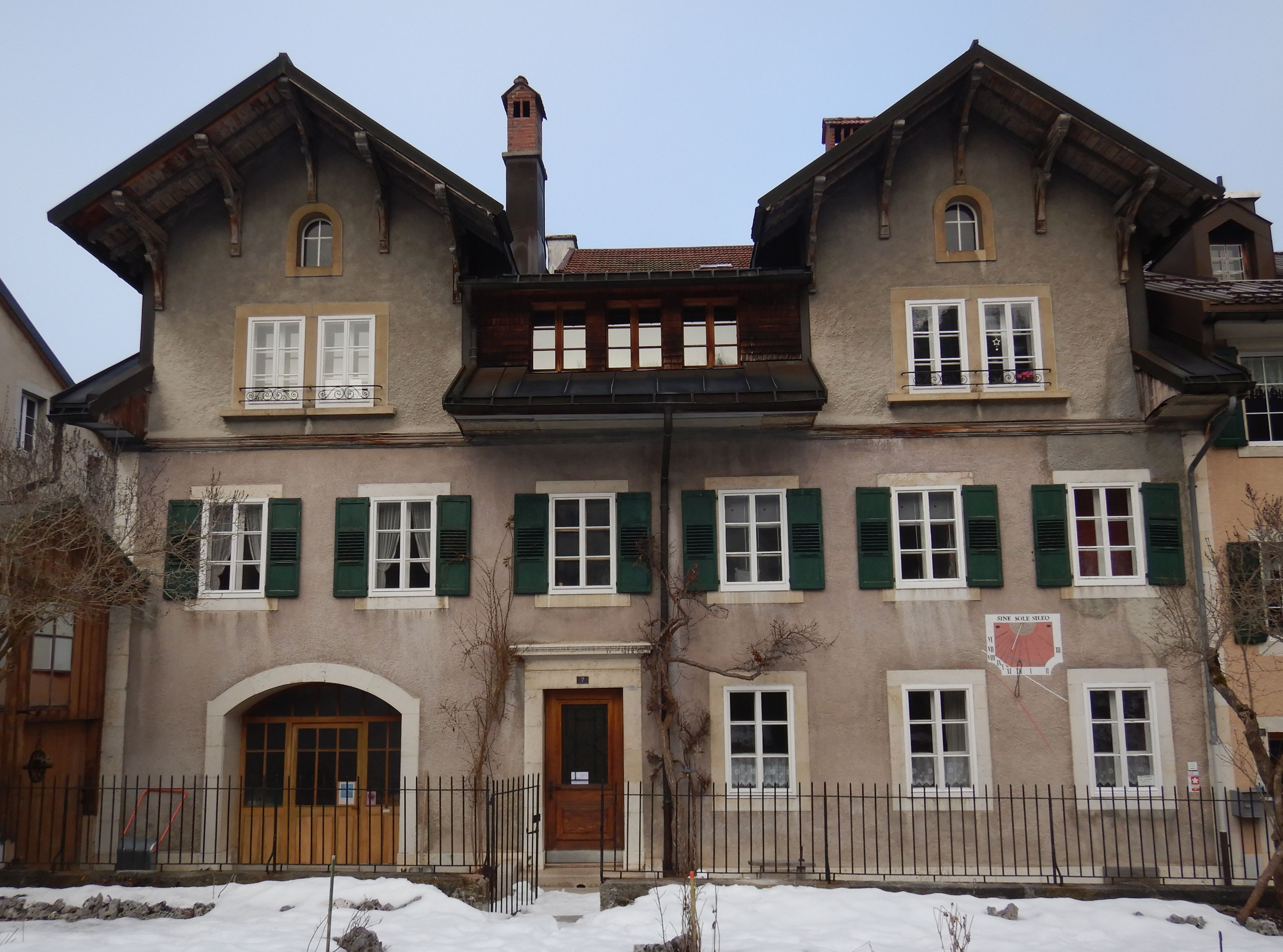 Front view of Rue de la Gare 7, Le Brassus, Switzerland with its sundial.